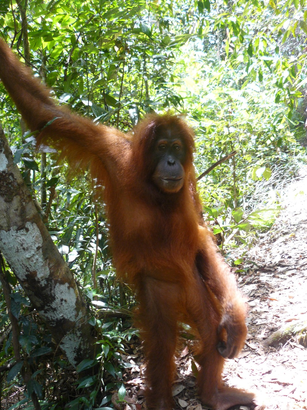 Taken during a jungle trek near Bukit Lawang on Sumatra, Indonesia, at arounf 1pm. Camera: Panasonic DMC-FZ8 (ISO100, 1/30sec)